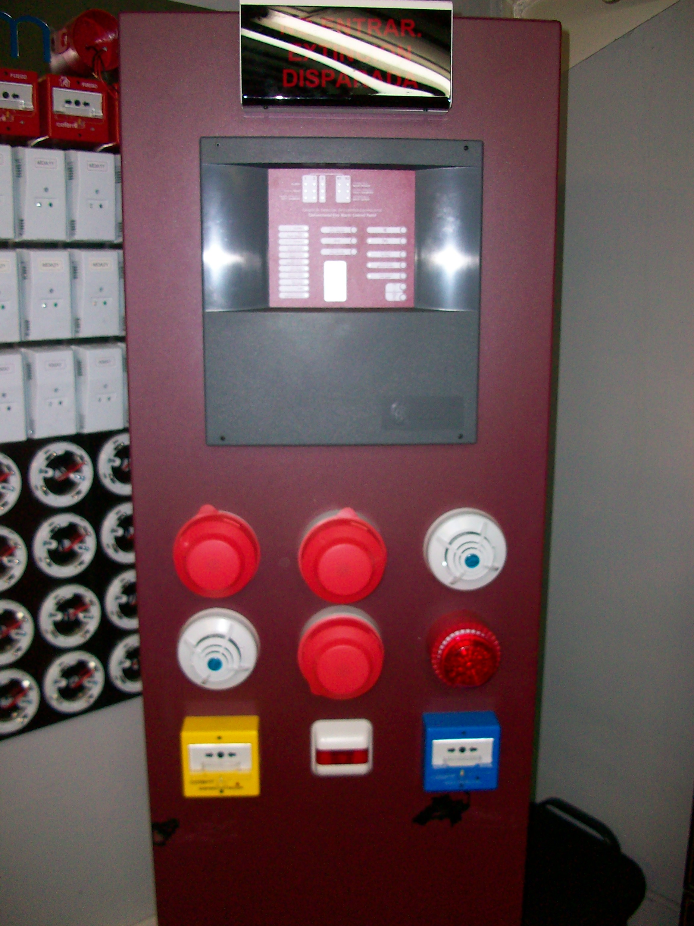 Automatic Extinguishing panel with smoke detectors and manuals calls points BLUE "Stop Extinguishing", YELLOW "Extinguishing"